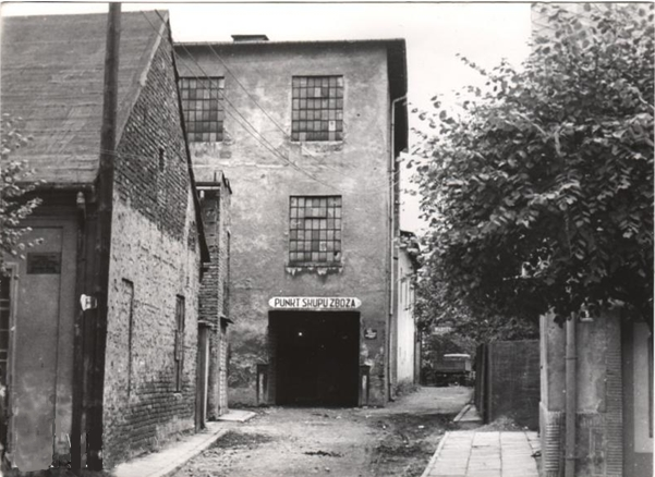 Jewish textile factory before WWII